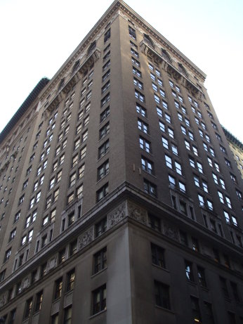 The office building and its entrance at 52 Vanderbilt Avenue. Last location of American Black Chamber.